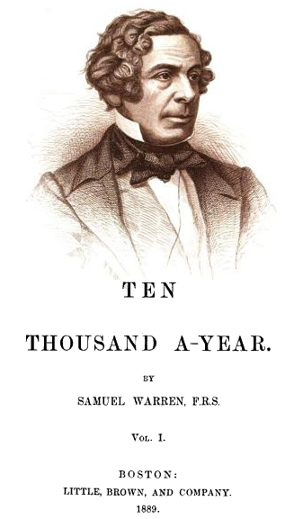 This is the cover plate of volume 1 of the 1889 edition of Samuel Warren's Ten Thousand a-Year published by Little, Brown, & Company in Boston.